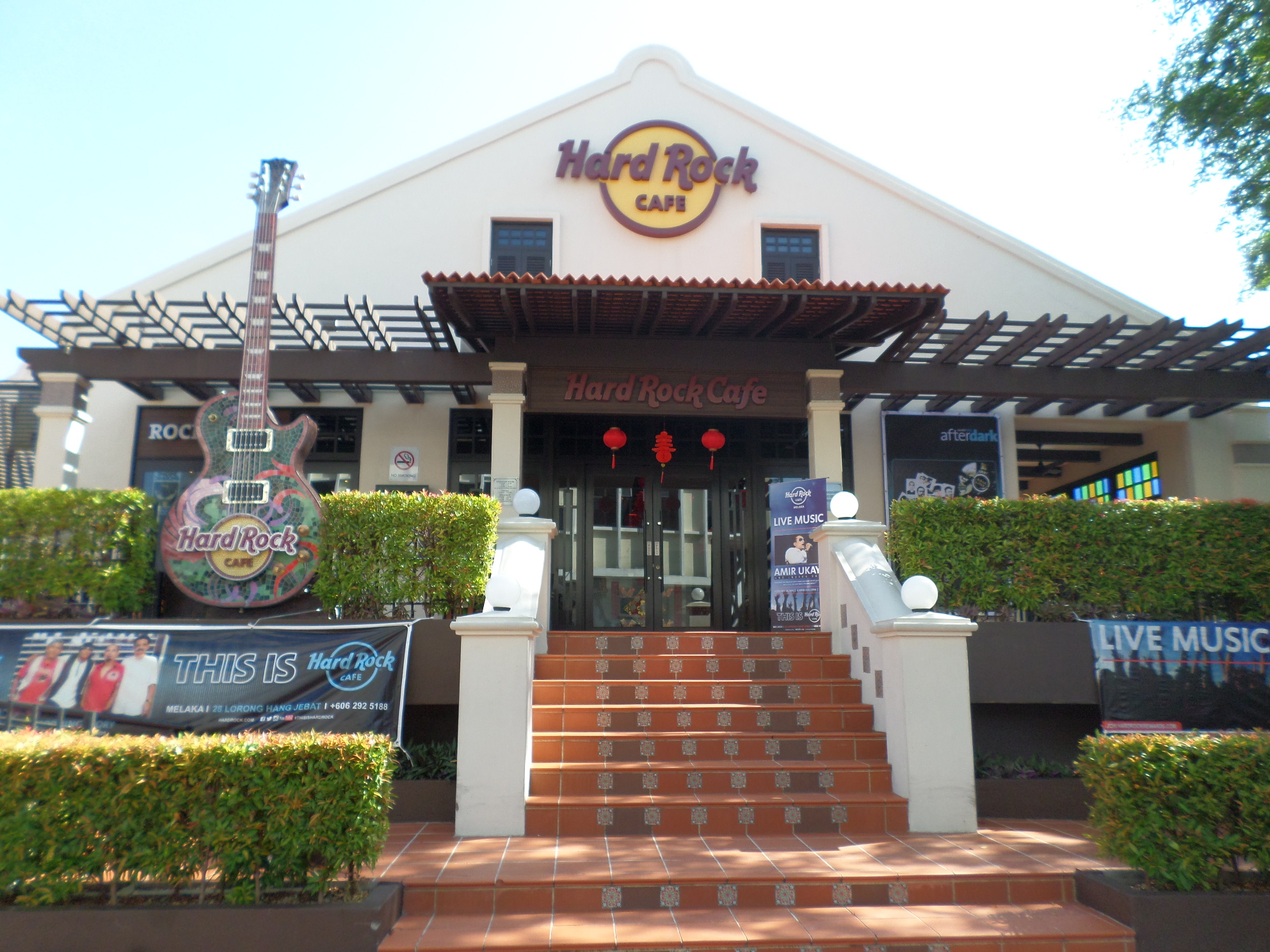 Hard Rock Cafe, Malacca City, Malacca, Malaysia